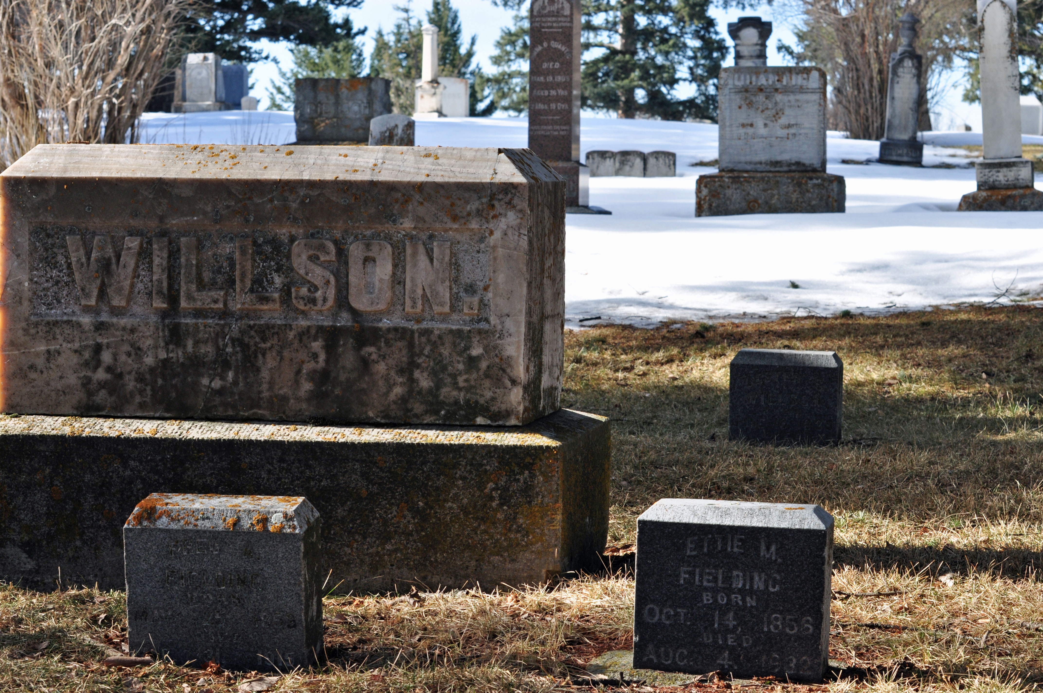 The Willson family plot at Sunset Hills Cemetary, Bozeman, MT - Lester S. Willson and Emma D. (Weeks) Willson are interned behind the large stone. Photo taken January 28, 2011.